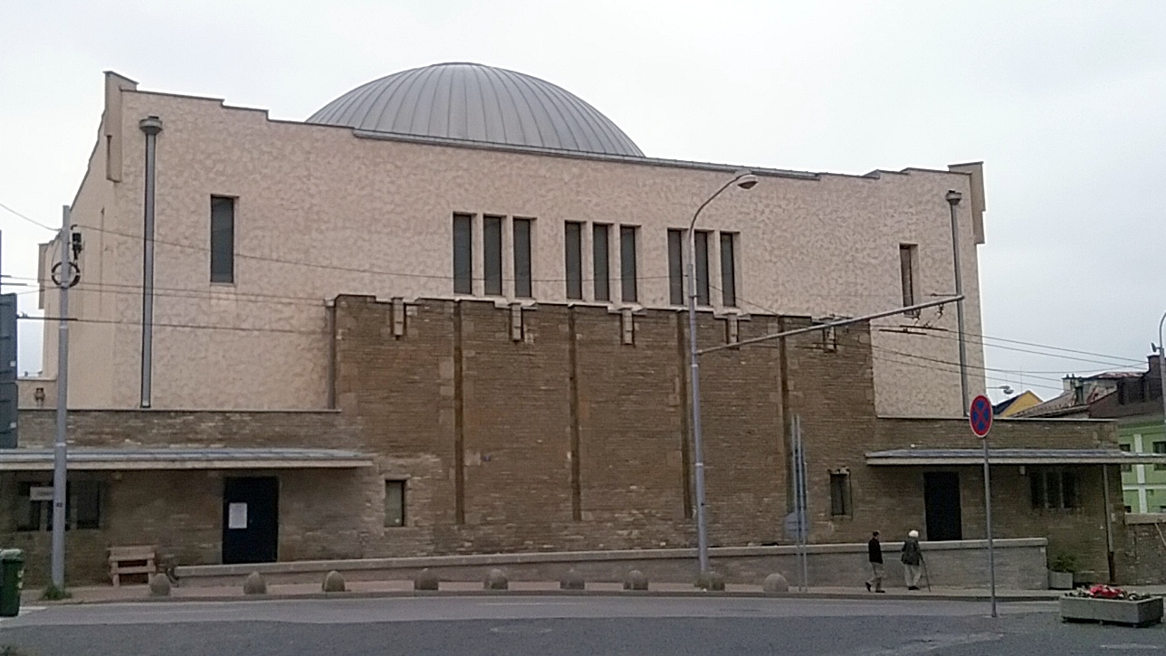 New Synagogue, Žilina - eastern facade following restoration, 2016